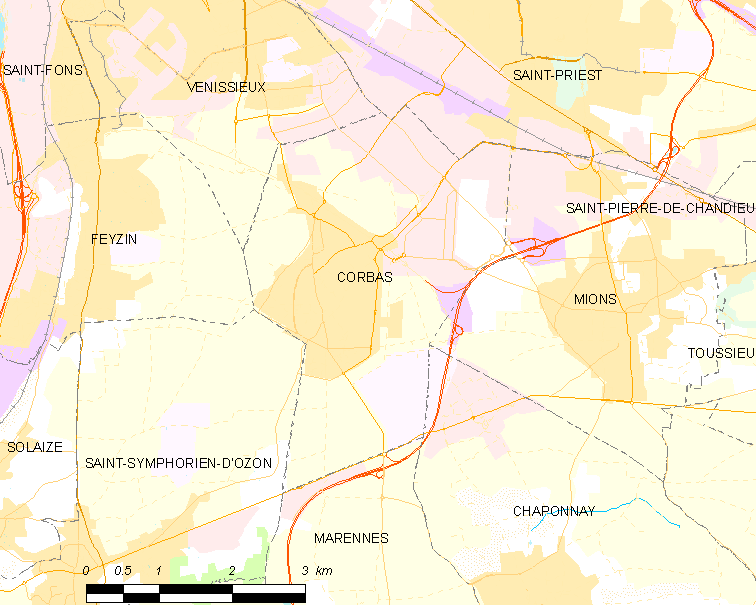 Map of French municipality